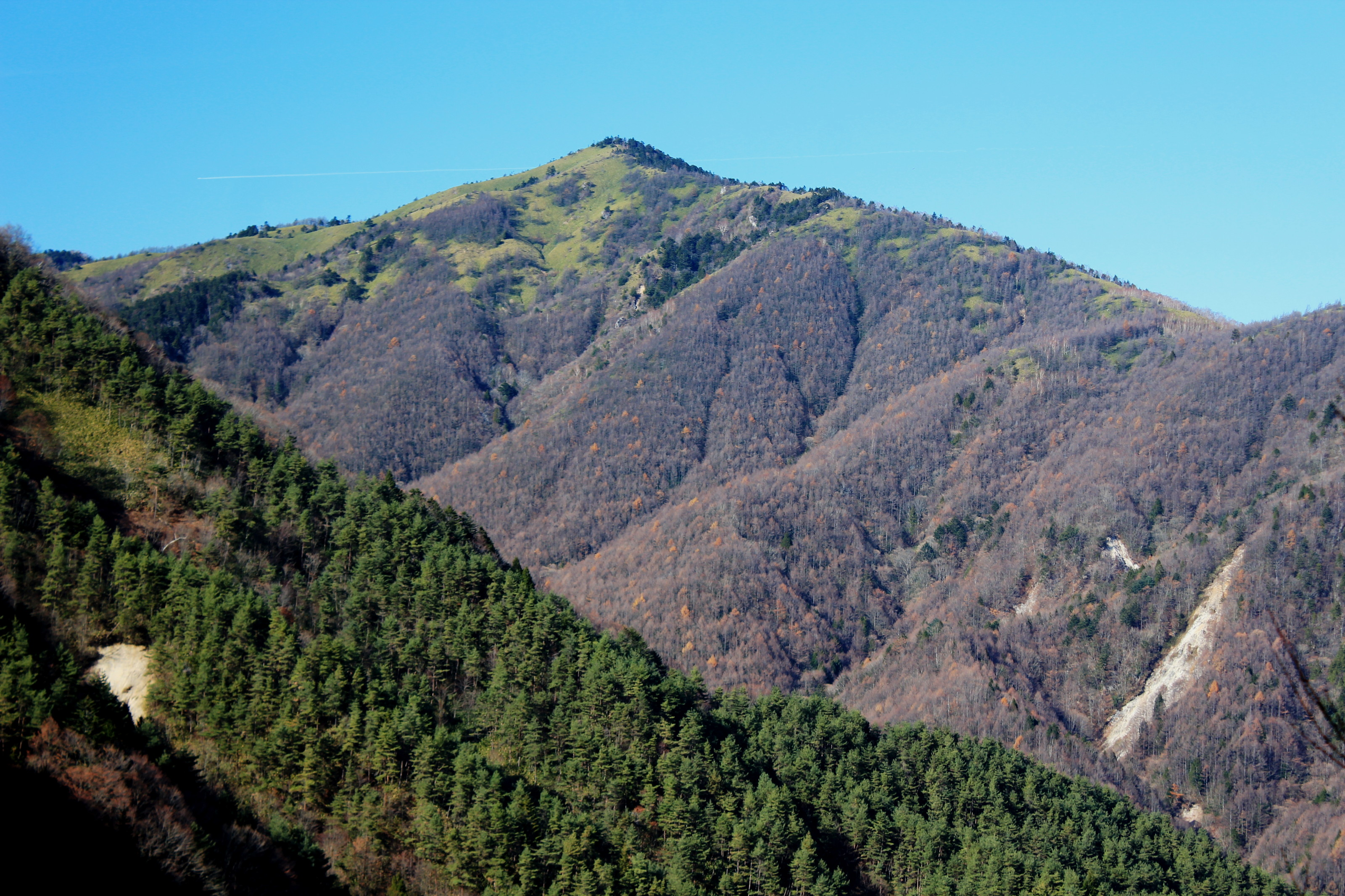 Mount Ōkawairi seen from Mount Yoko, in Kiso Mountains, Nagano prefecture, Japan.